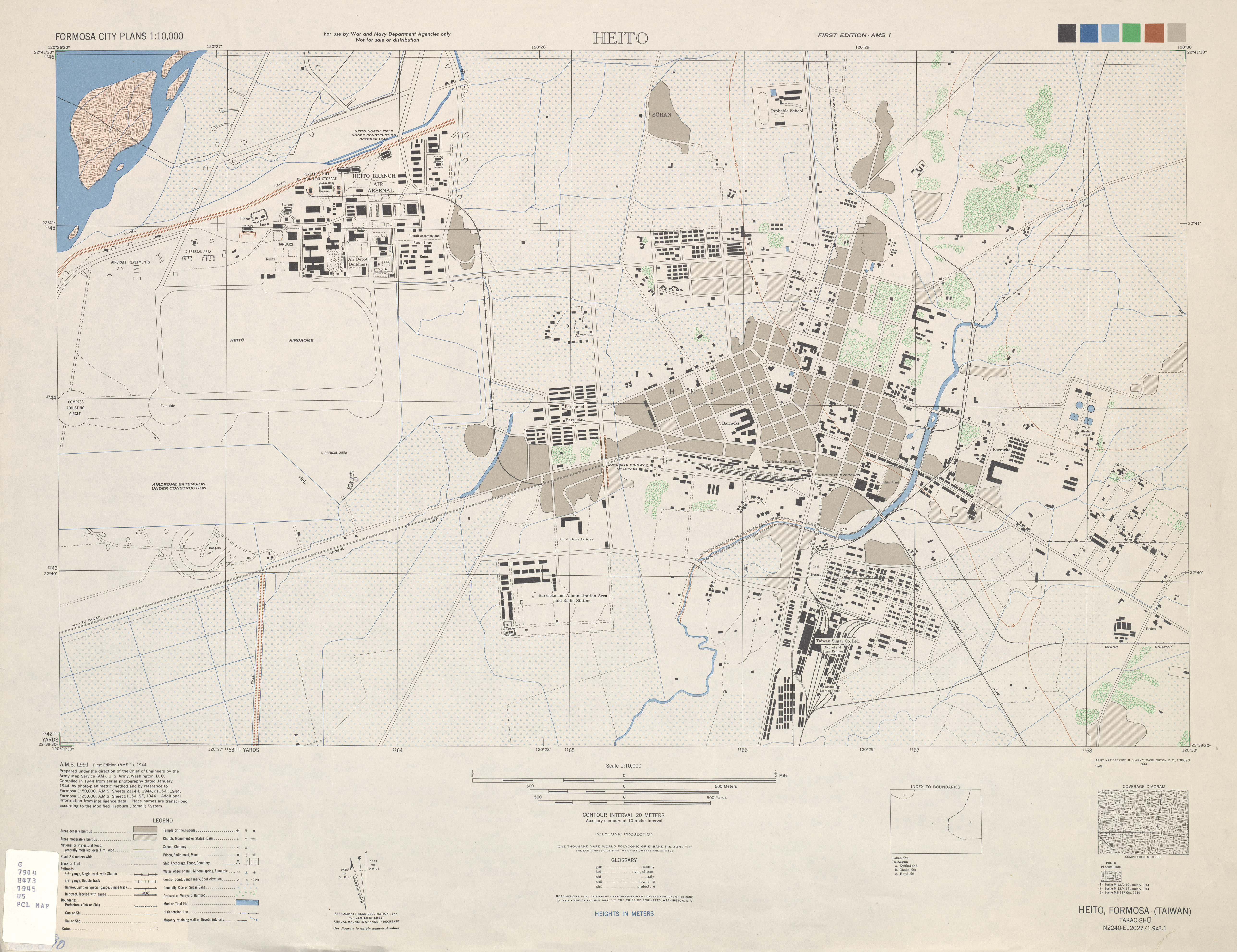 Map of Heito